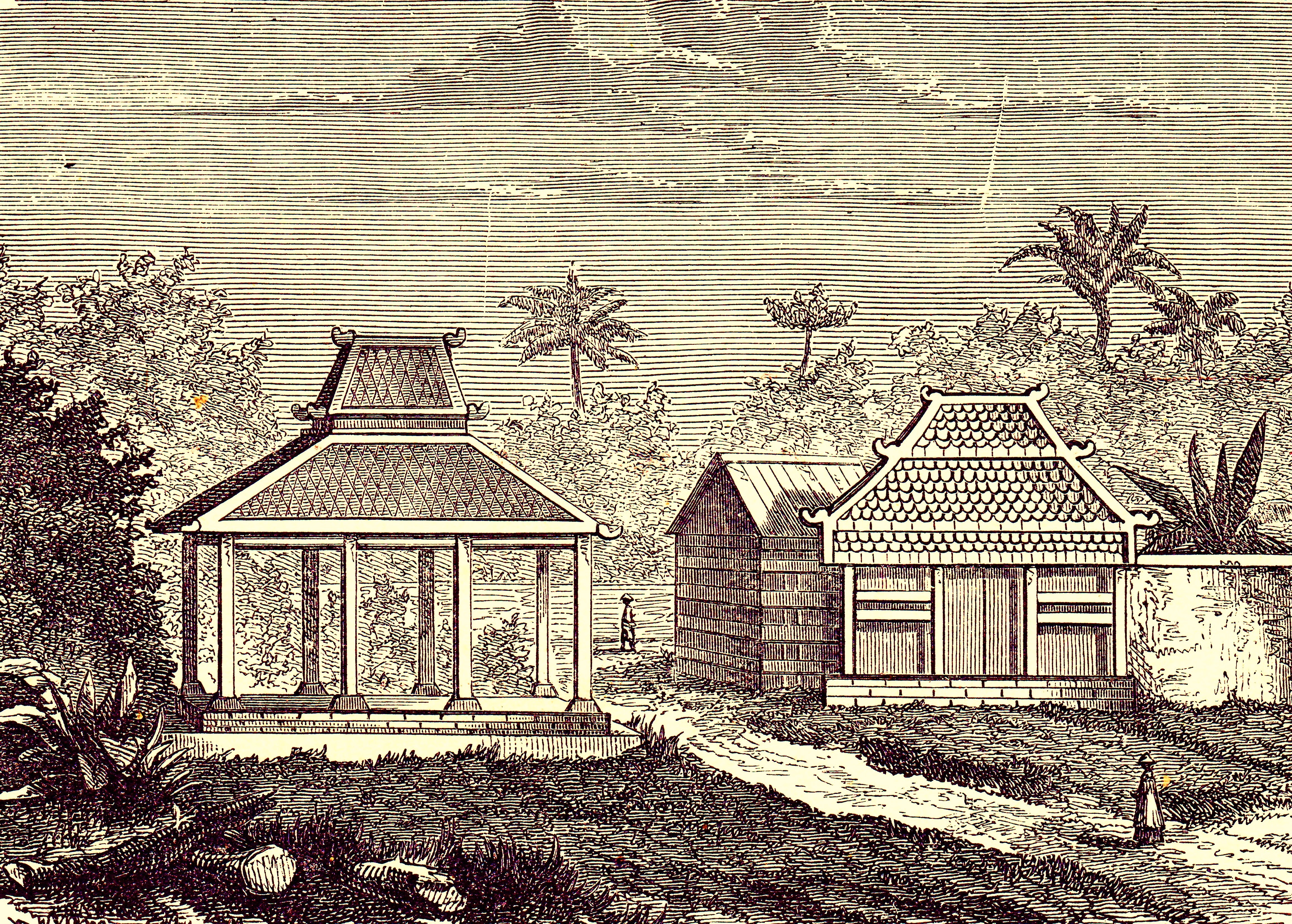 Woning van een Javaans hoofd